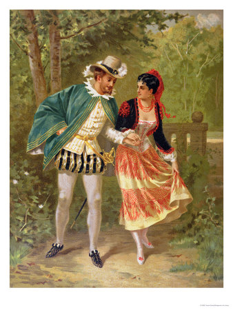 Don Giovanni and Zerlina in an illustration, circa 1890–1900